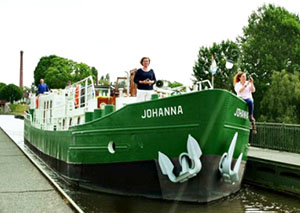 Hotel barge Johanna crossing the Briare aqueduct